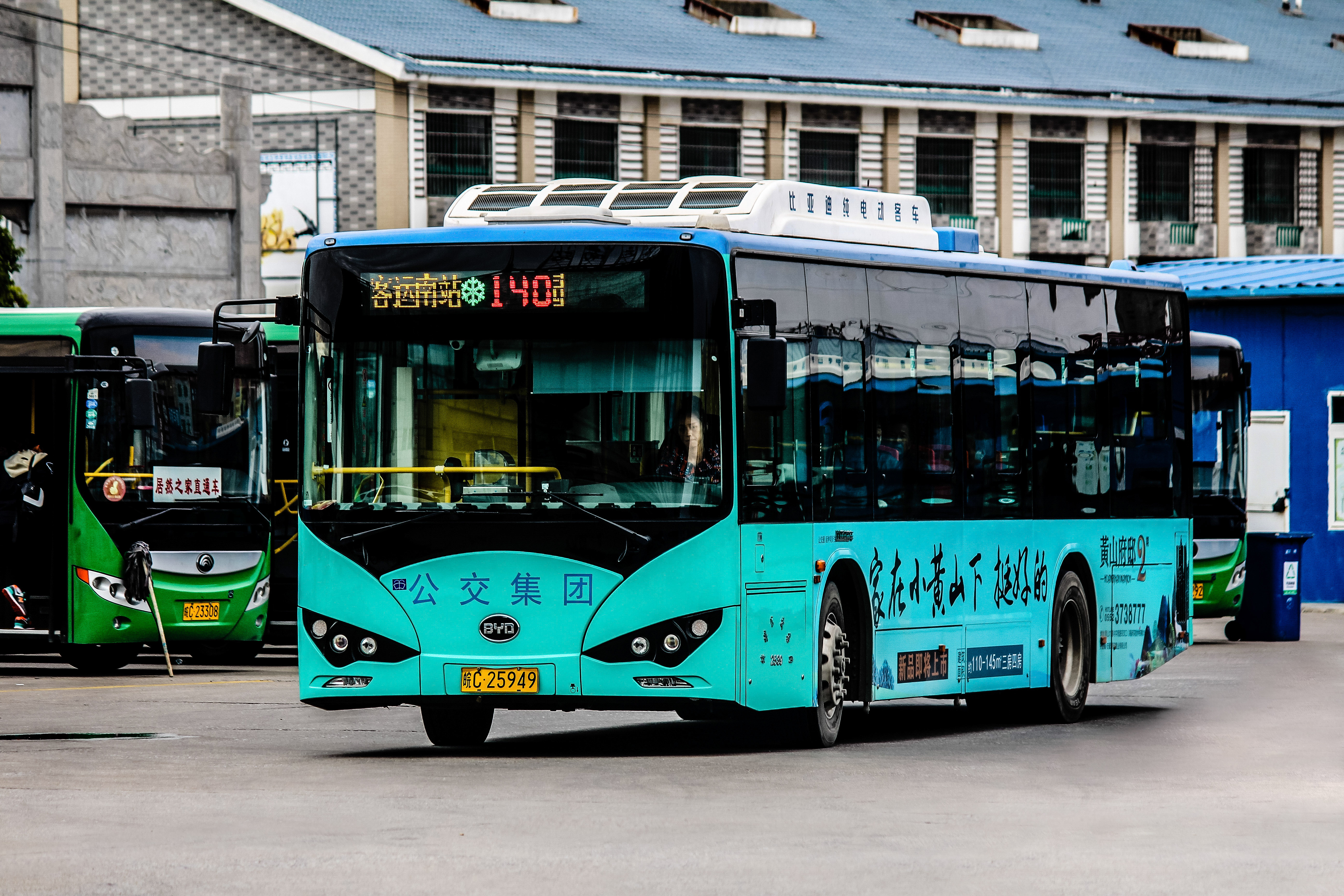 Bengbu Bus No.140 with ADs